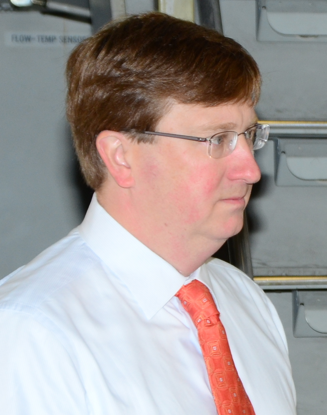 While touring the 172nd Airlift Wing's Thompson Field, Lt. Gov. Tate Reeves was welcomed on board a C-17 by wing personnel.